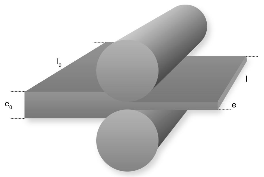 Work hardening